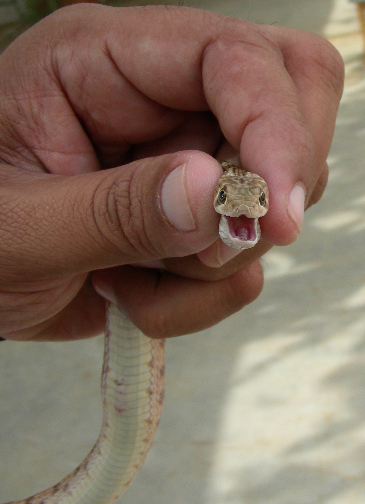 Glossy-bellied Racer, Coluber ventromaculatus, Family Colubridae, Serpentes This snake has been photographed in Pokaran, district Jaisalmer, Rajasthan, India by AshLin on 06 Jun 2006. This image shows a closeup of the head of the Glossy-bellied Racer held in the head. Own work. AshLin 18:36, 30 July 2006 (UTC)